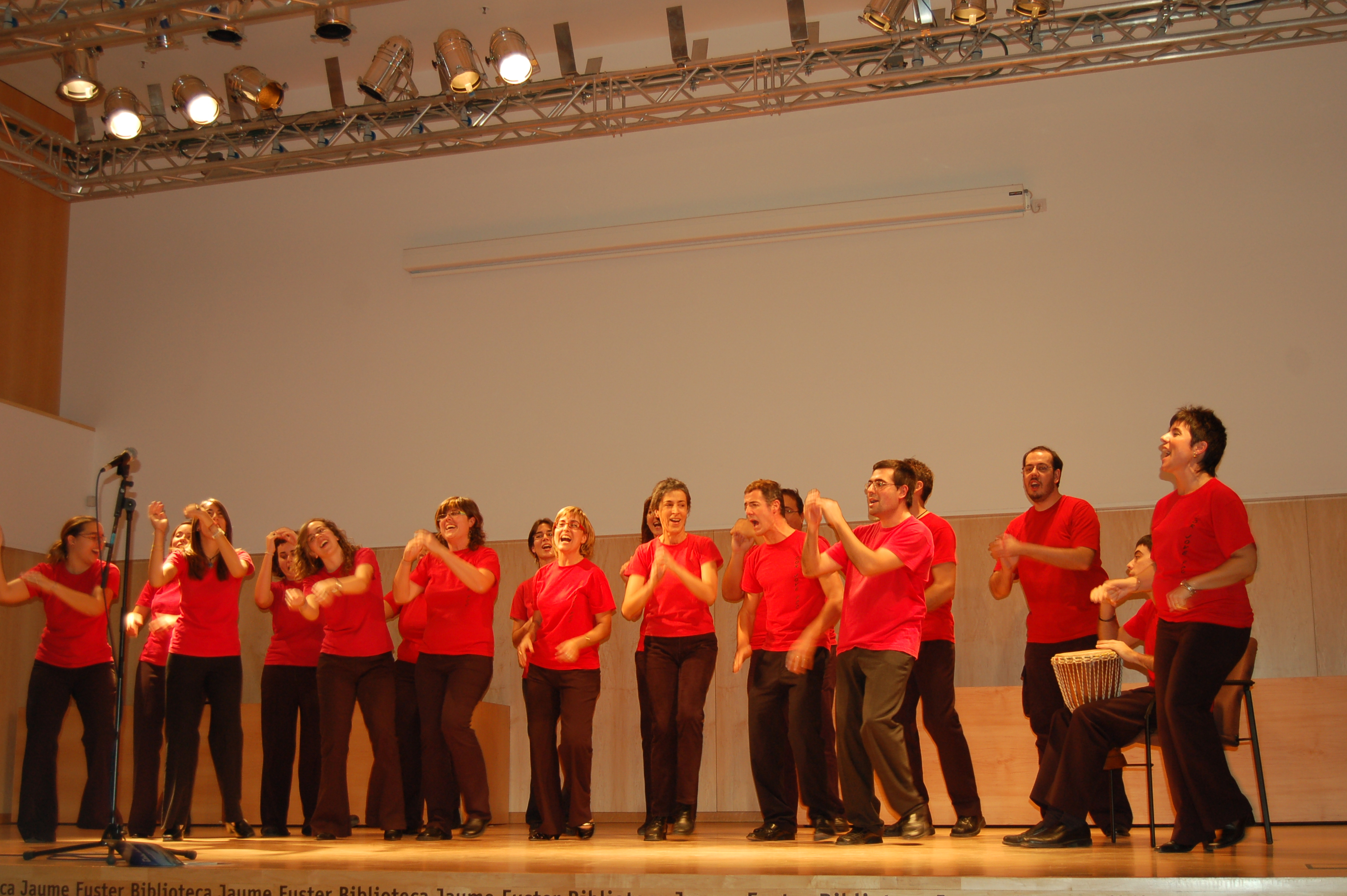 Cor Jove de la FCC in a tribute to Euterpe choir.